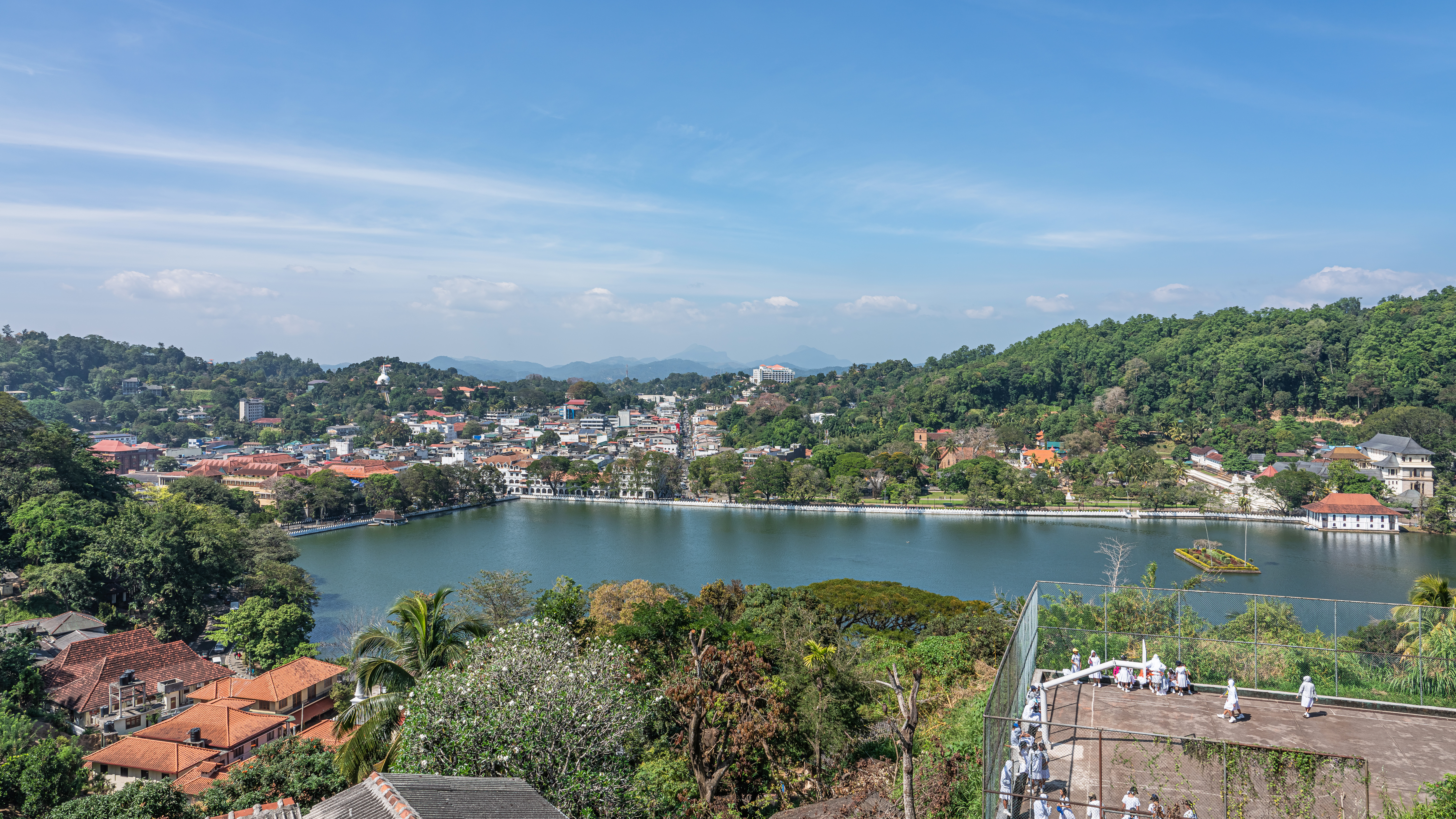 View from Arthur's Seat viewpoint in Kandy, Sri Lanka